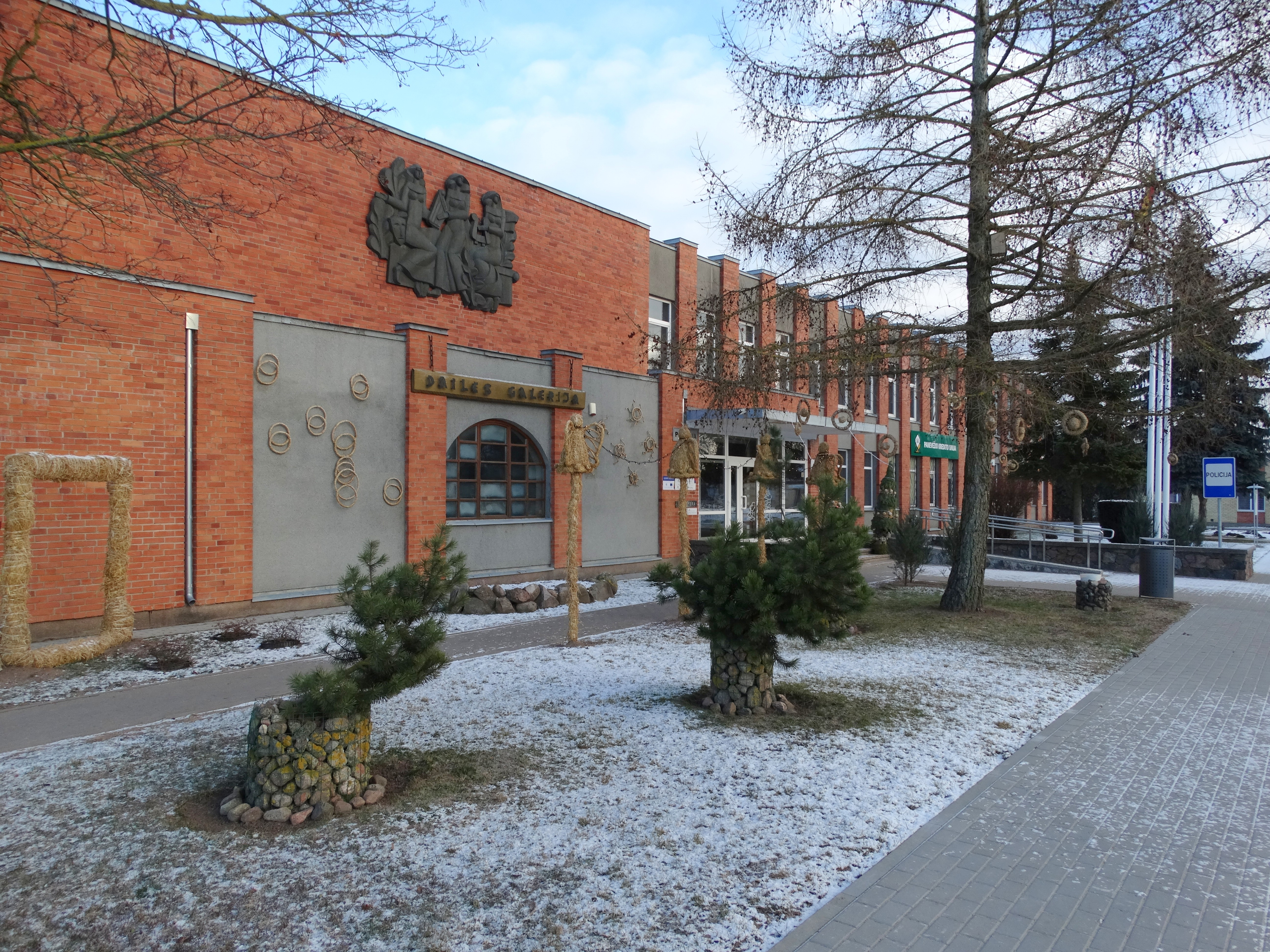 Art gallery, Naujamiestis, Panevėžys District, Lithuania